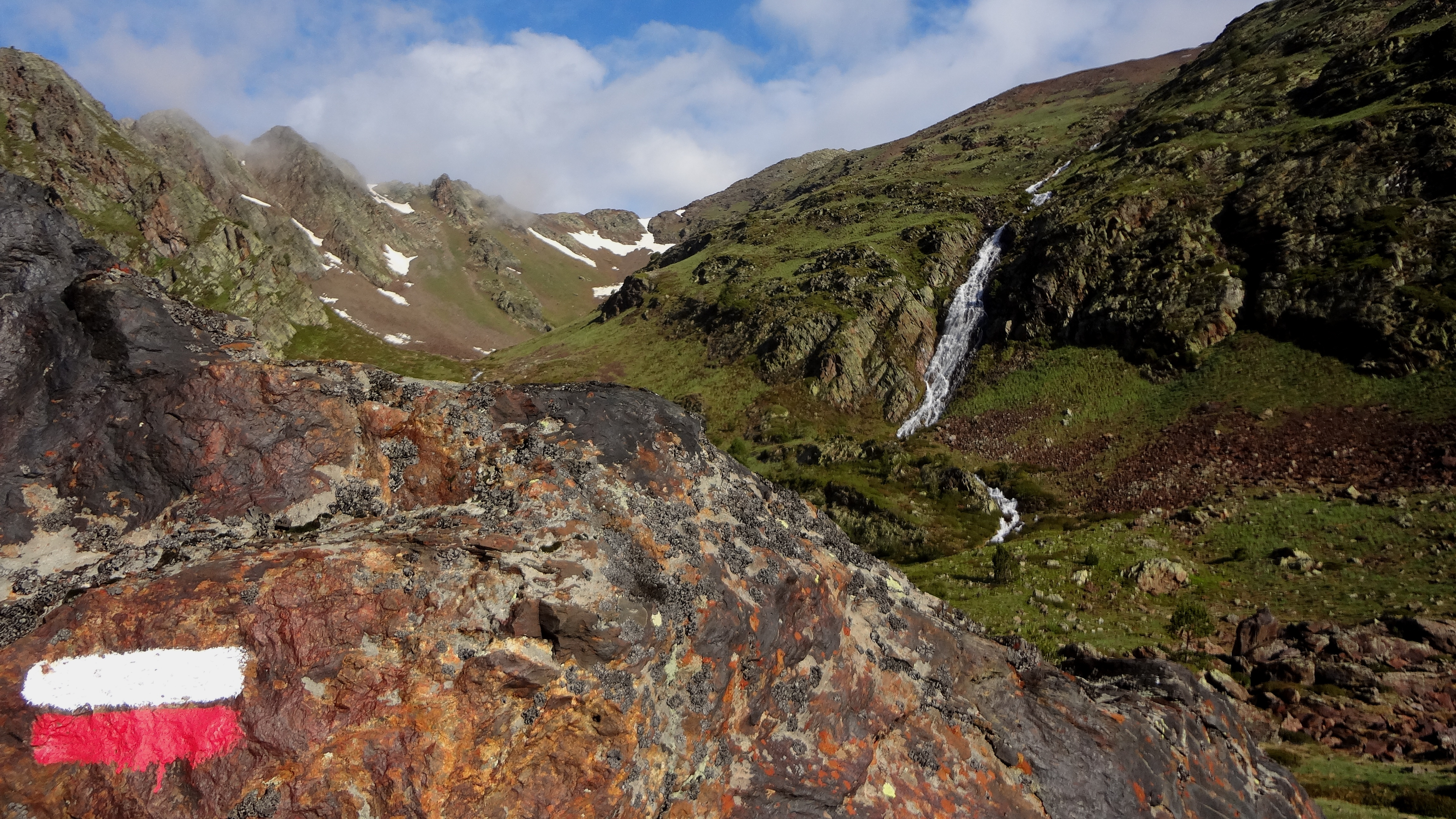 Grande Randonnée footpath GR-11 in the Nature Park Valls del Comapedrosa, Andorra, near Pic de Sanfonts (2885 m) This is a a photo of a natural area in Andorra with id: AD-PNCVC